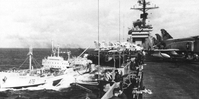 The Royal Fleet Auxiliary RFA Plumleaf (A78) refuels the U.S. Navy aircraft carrier USS America (CVA-66). Aircraft of Carrier Air Wing 9 (CVW-9) are visible on deck, which was assigned to America between October 1969 and December 1970.